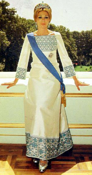 Farah Pahlavi, empress of Iran.